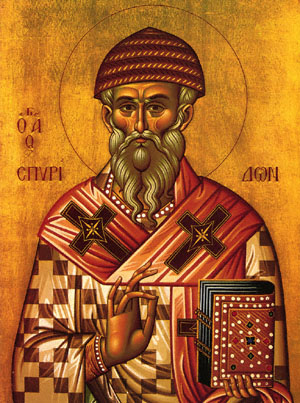 Saint Spyridon. Greek or Russian orthodox icon. Projectcode: "en" (English wikipedia)